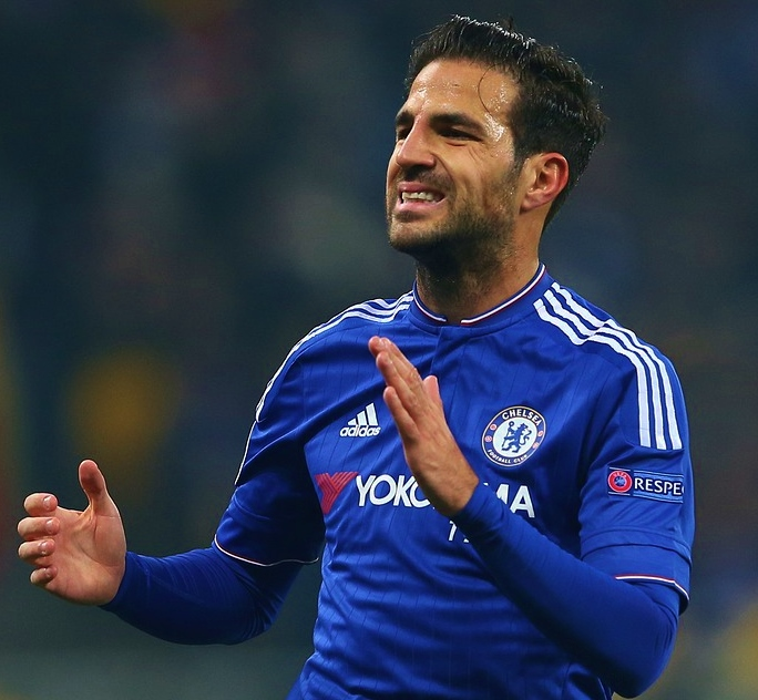 Cesc Fàbregas